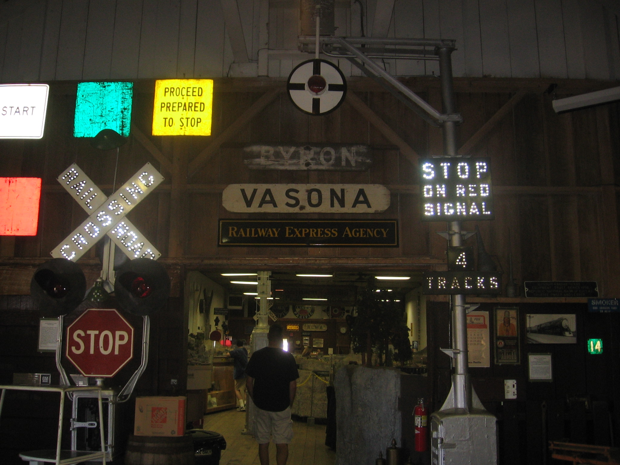 The South Bay Historical Railroad Society in the Santa Clara Station, Santa Clara, California, USA.